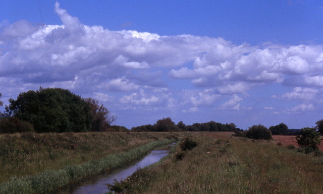 River Glen near Thurlby.